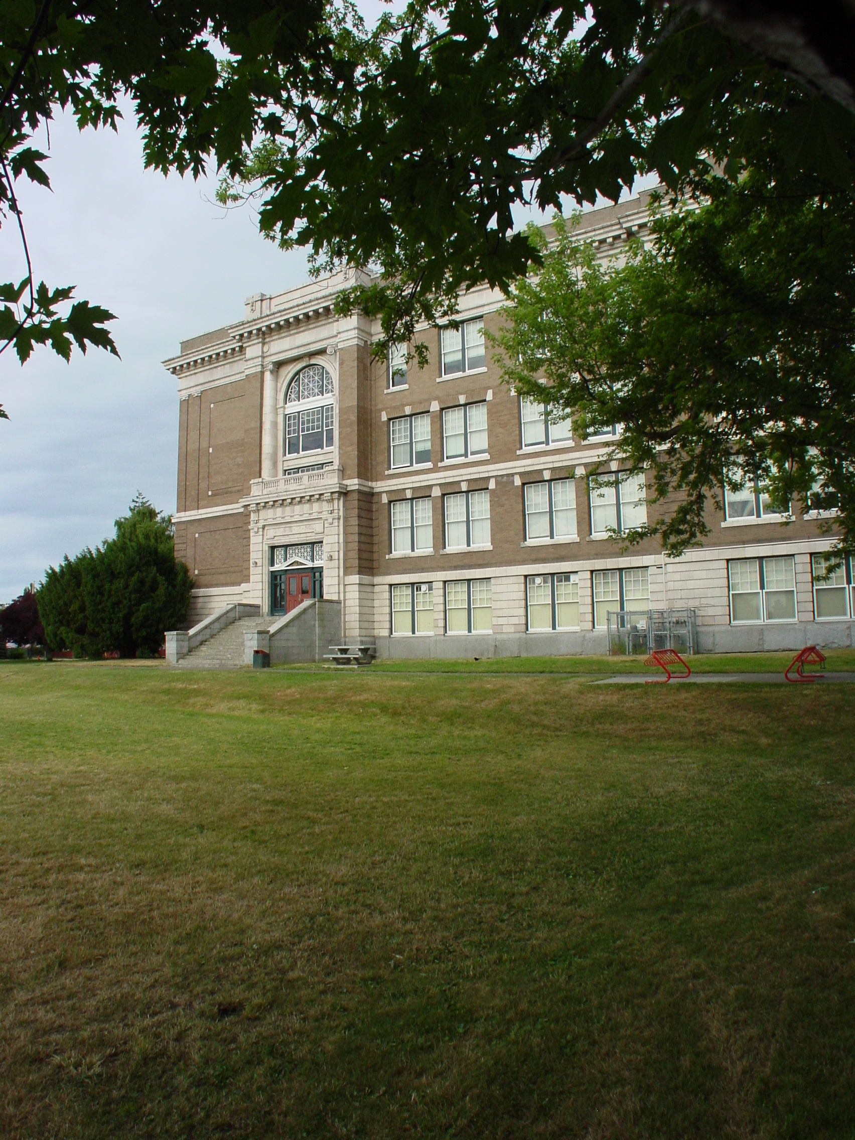 Victoria High School, Victoria, British Columbia, Canada